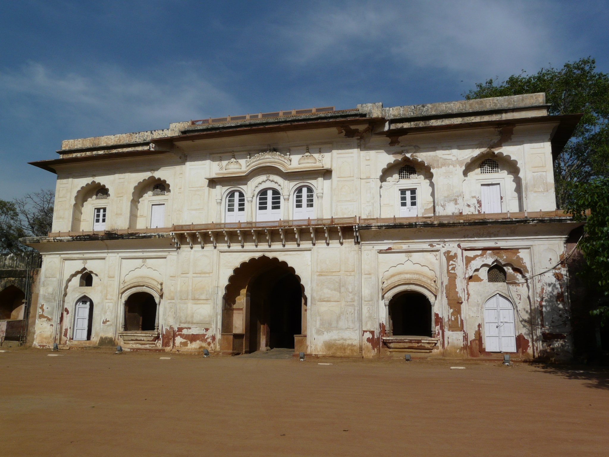 Safdarjung's Tomb entrance building from inside enclosure Safdarjung's Tomb, Delhi